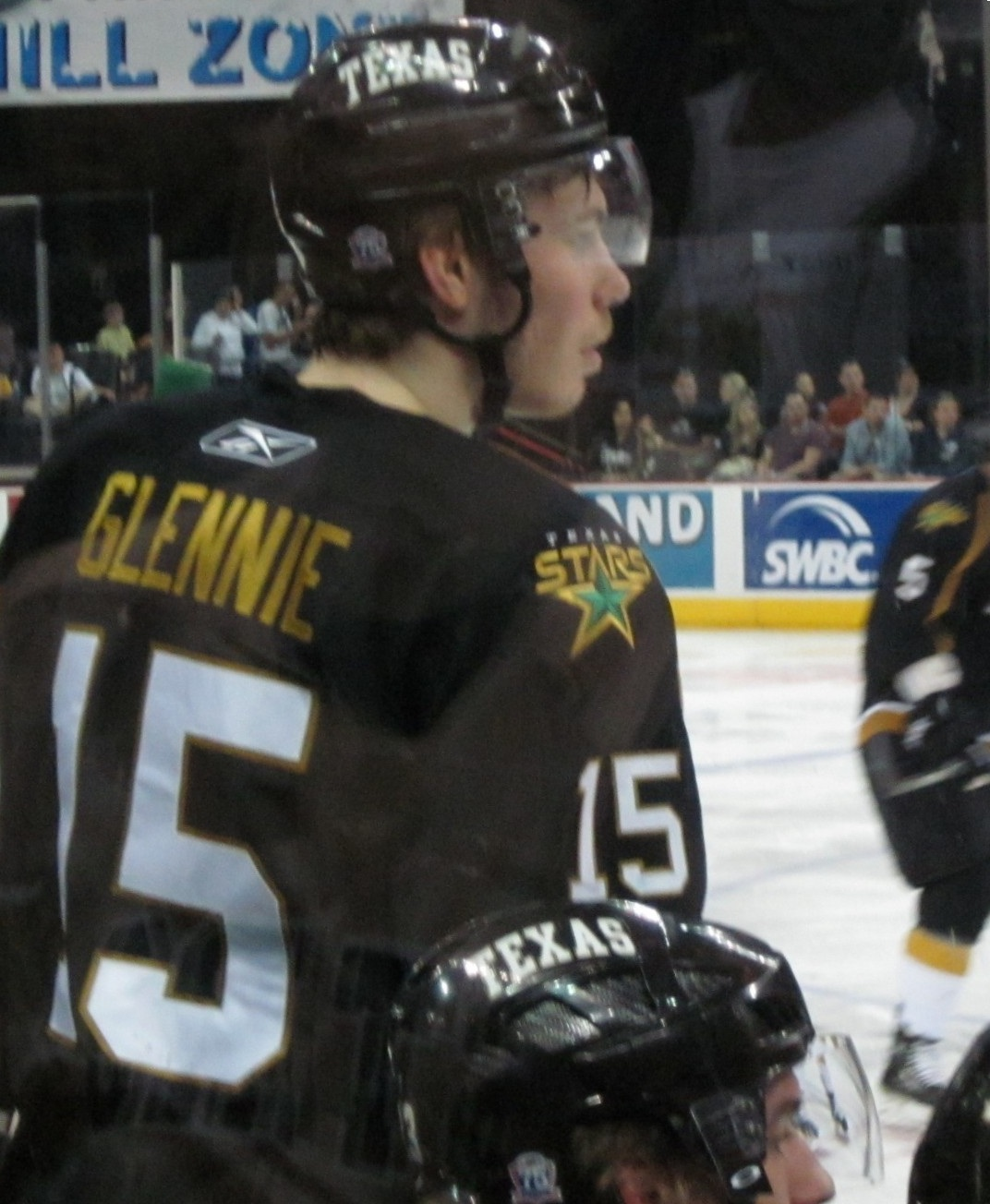 Scott Glennie playing for the Texas Stars, 2010-2011